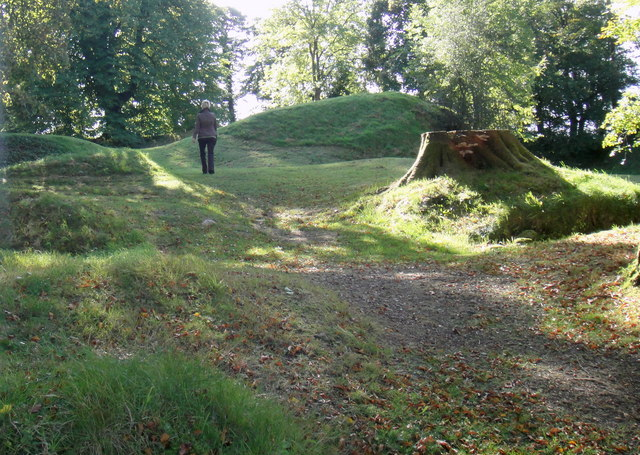 Tullyhogue Fort Looking across the earthworks, towards the inner meeting area where the O'Neills were crowned Chiefs of Ulster.